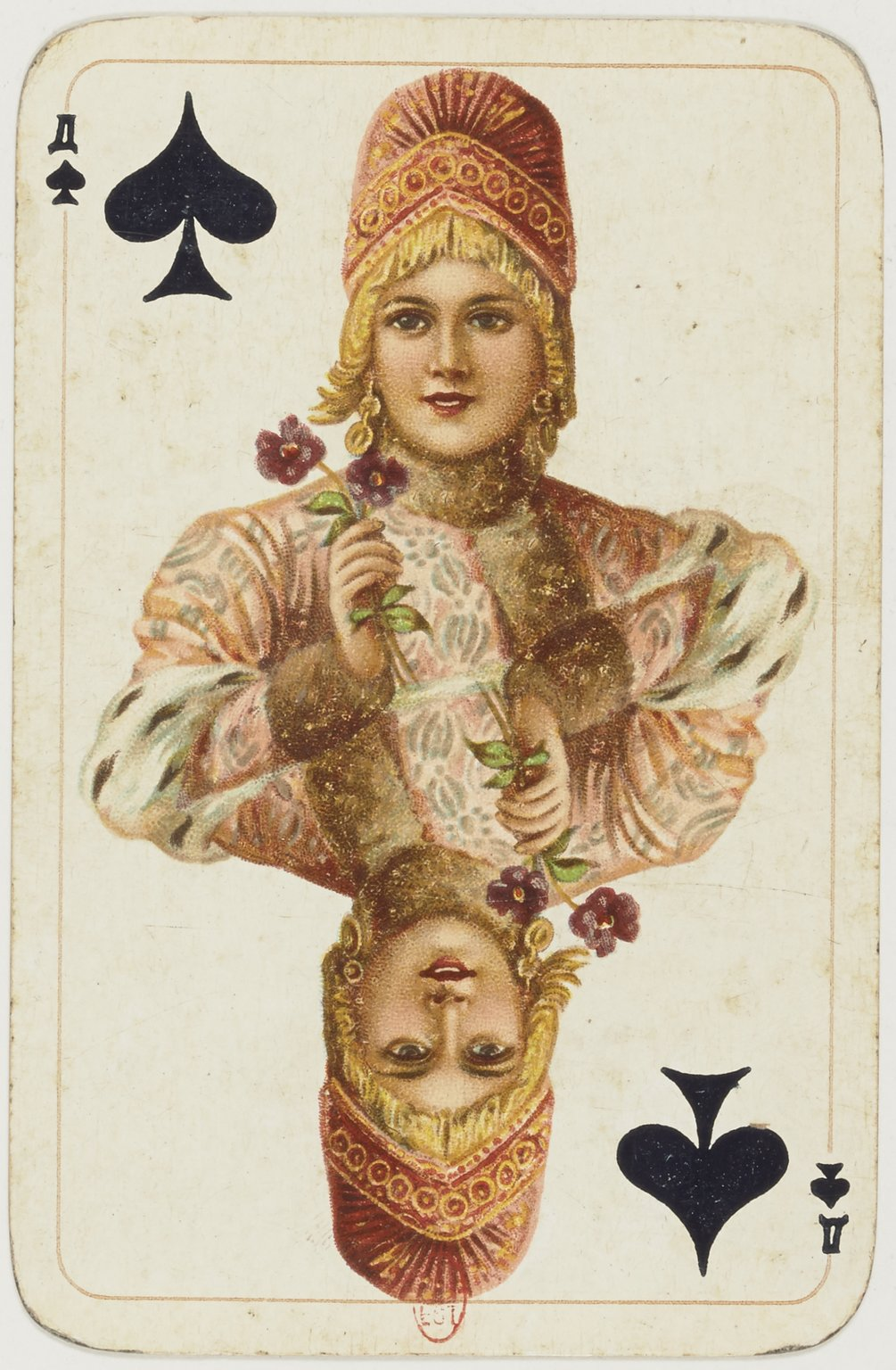 A playing card from "Russian style" deck, designed in 1911 by Dondorf GmbH (Germany)